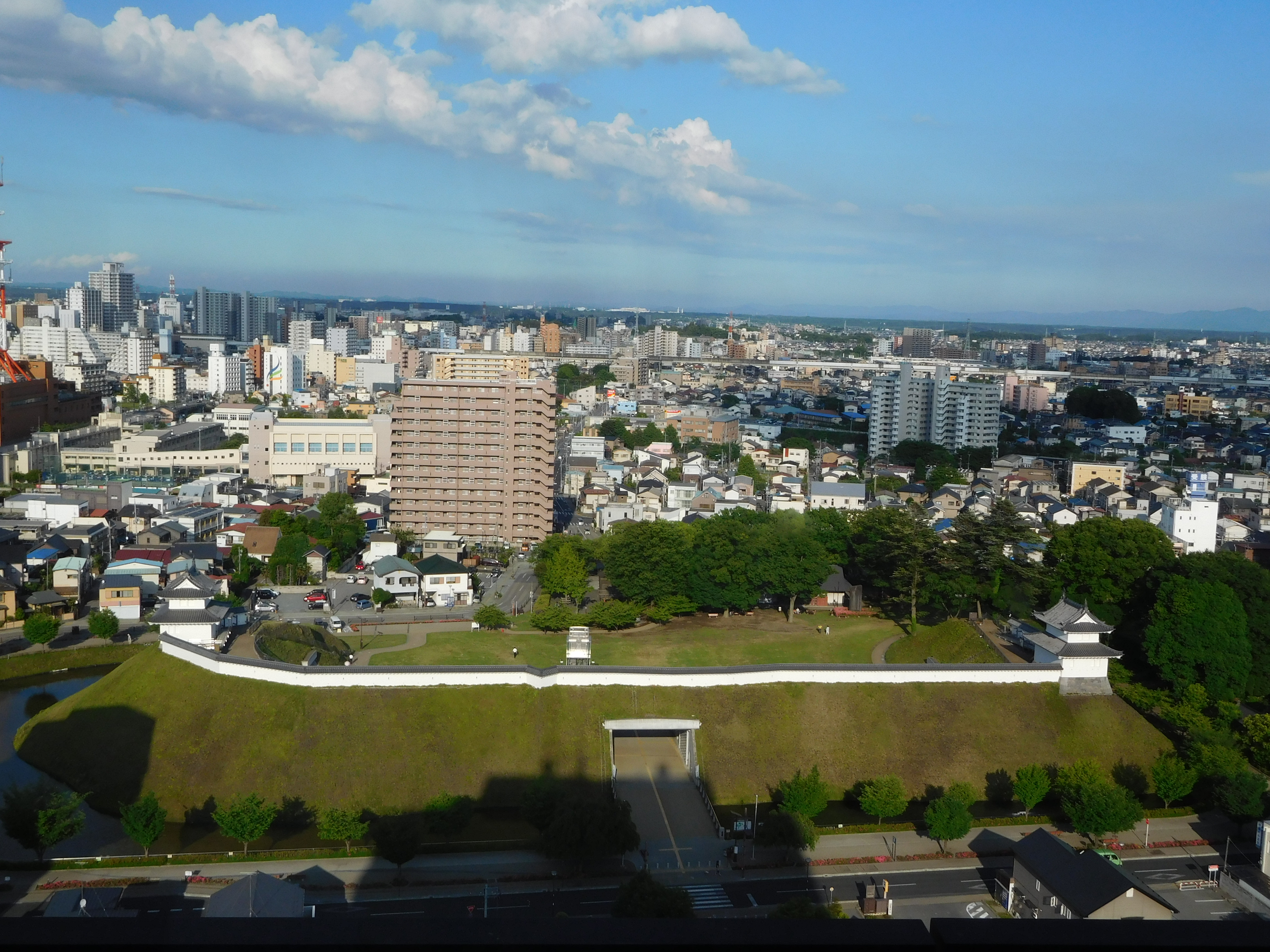 This is a panorama of Utsunomiya castle ruins Park in Utsunomiya, Tochigi, Japan. This photo was taken from Utsunomiya city hall.